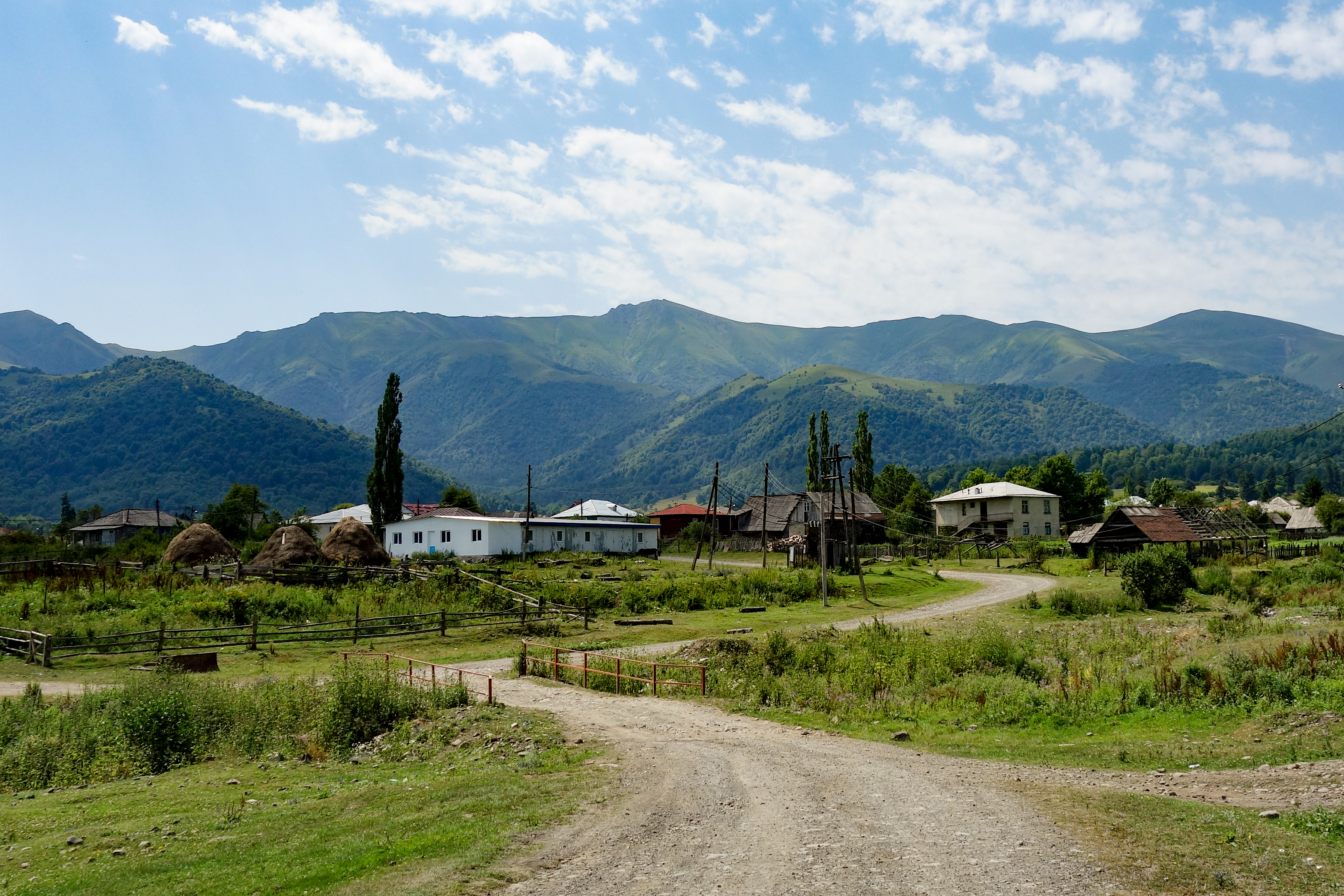 Mount Shaviklde (Karakaia) seen from the village of Tsikhisjvari, Samtskhe-Javakheti, Georgia